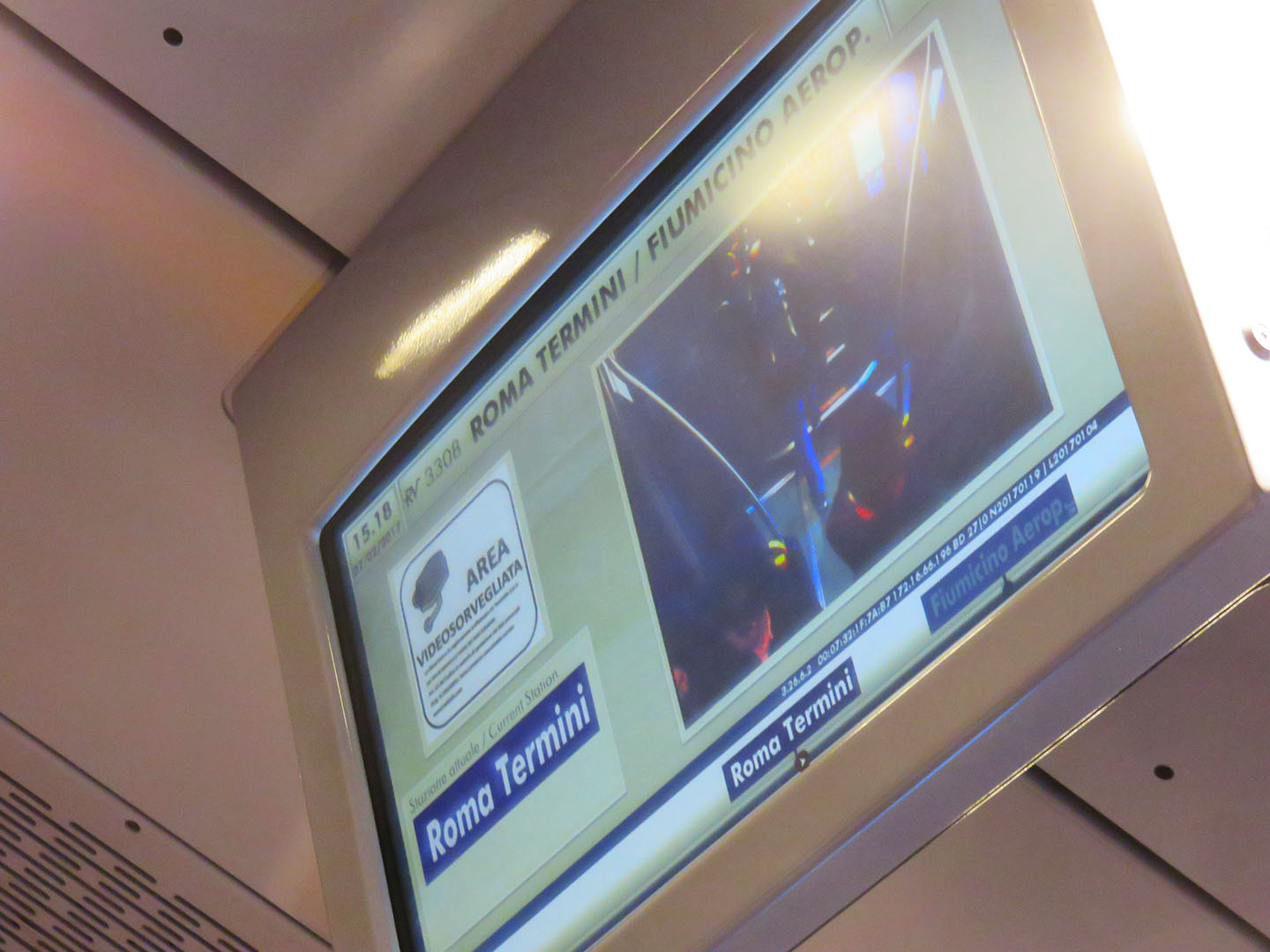 Interior display of Leonardo Express train